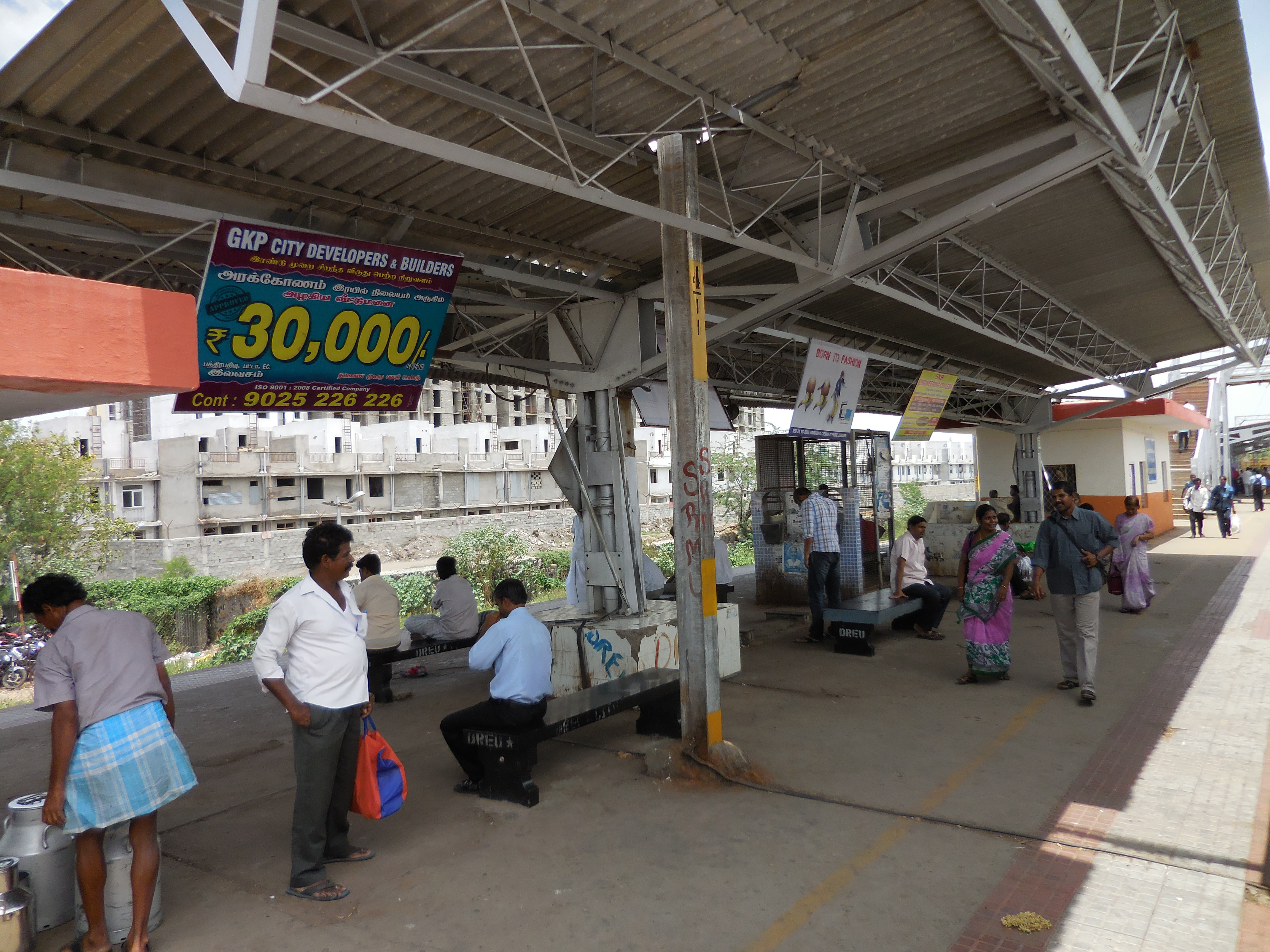 A view of Vyasarpadi railway station, Chennai, towards west, taken on 15 July 2014 at noon.